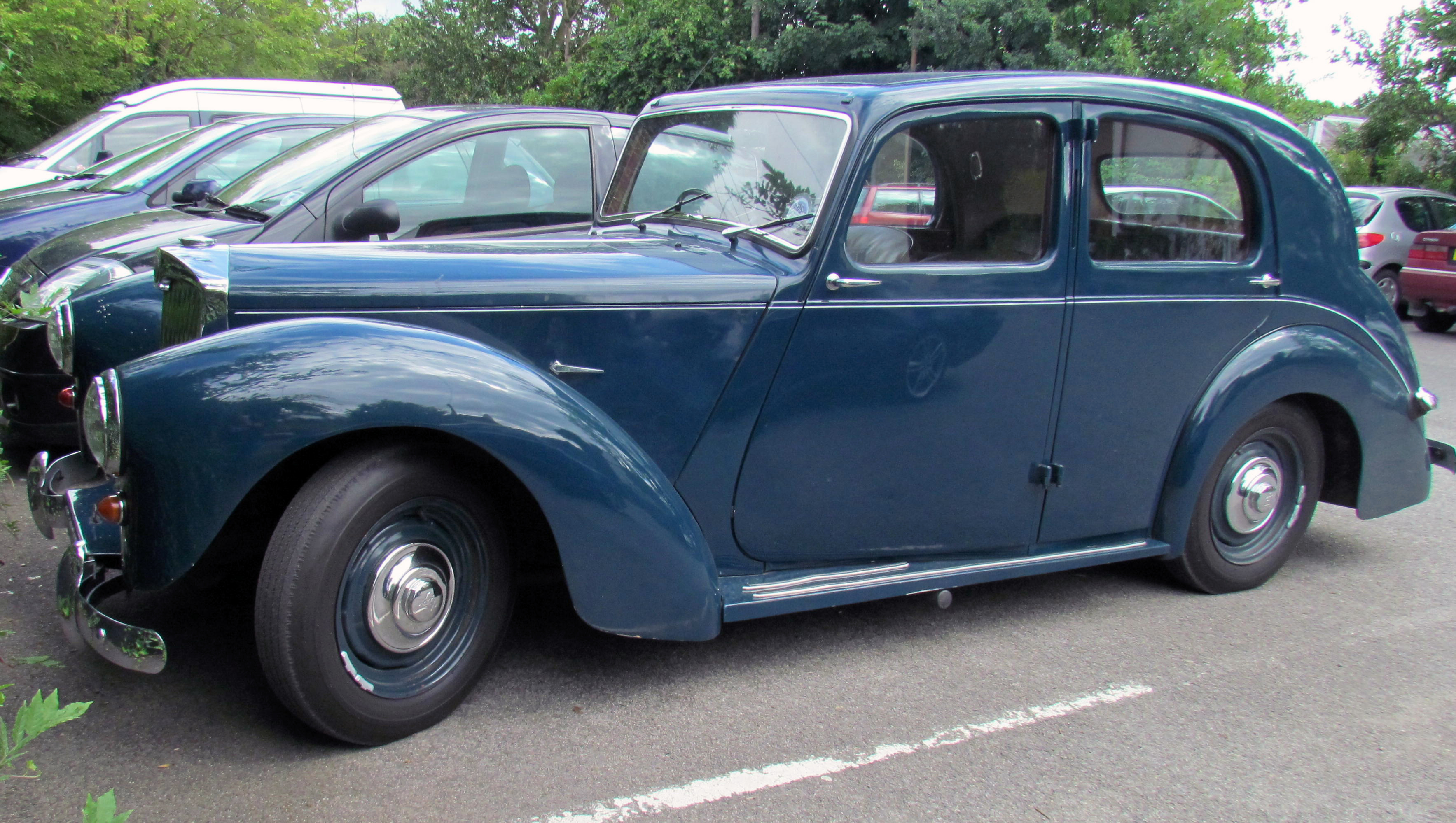 1951-1953 Lea-Francis 14hp Four-Light Saloon. This low-slung version replaced earlier "Fourteens".